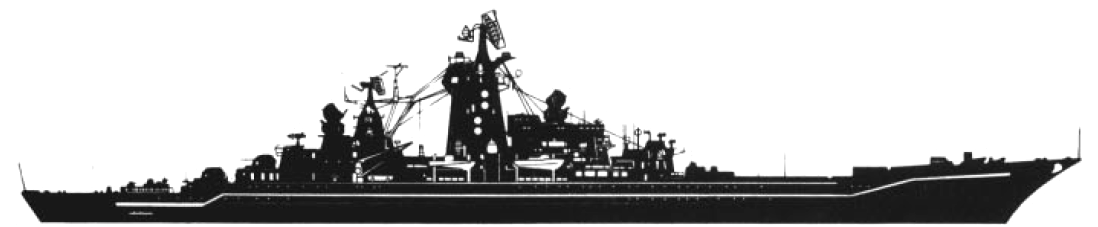 Profile of a Soviet Kirov-class (Project 1144 Orlan) guided missile battlecruiser.